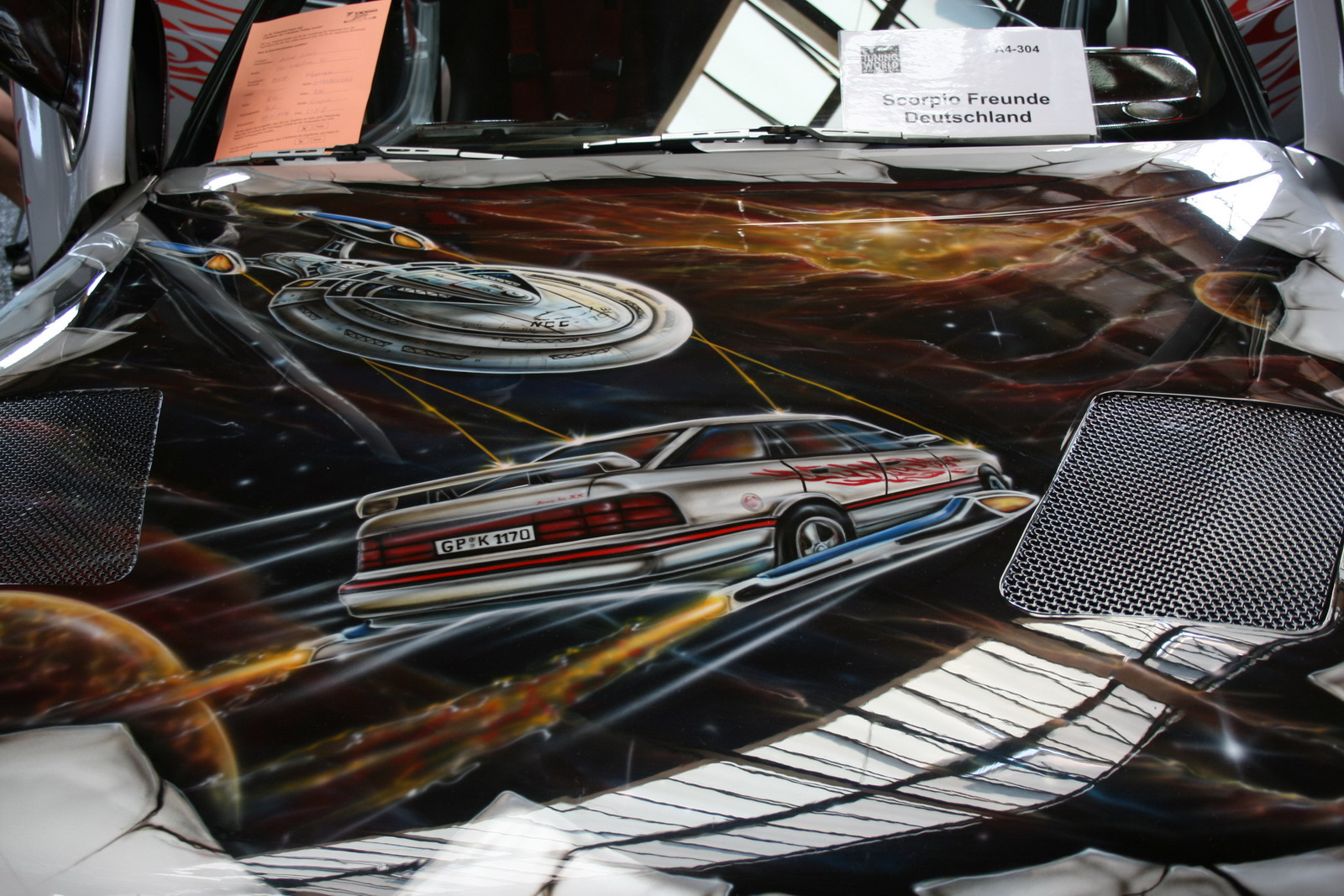 Custompainting_on_a_Motorhood